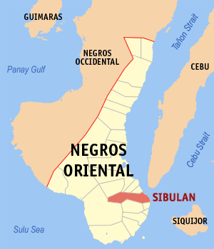 Map of Negros Oriental showing the location of Sibulan